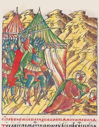 Death of Vasilko Konstantinovich